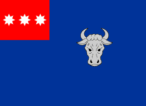 Civil ensign of the Principality of Moldavia (1858)